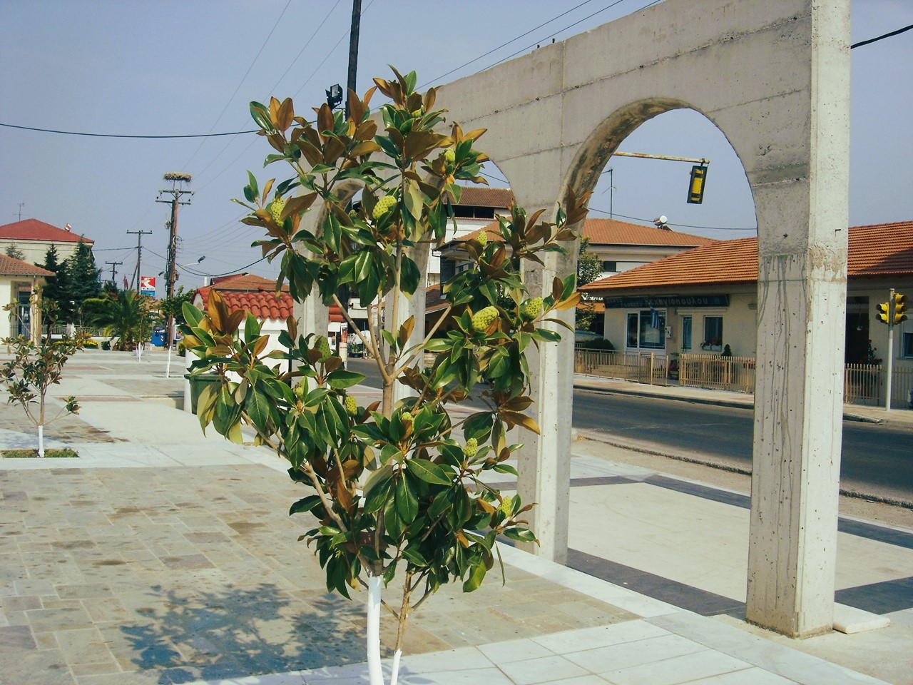 A plant in Svoronos, outside a church.